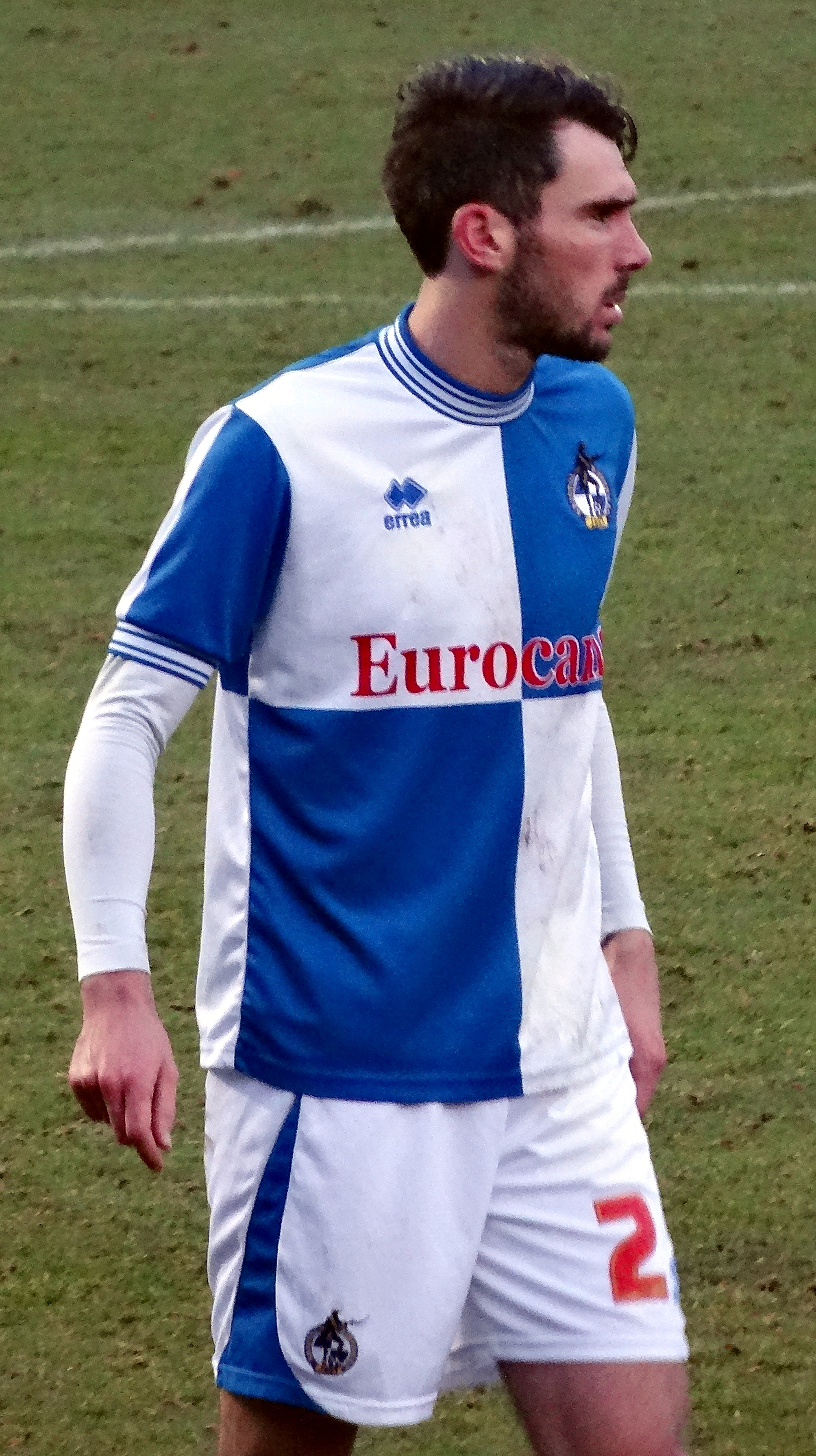 Michael Smith playing for Bristol Rovers against York City at Bootham Crescent, York on 18 January 2014